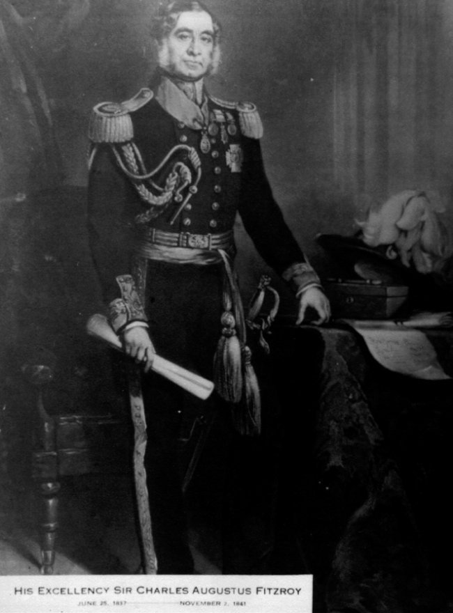 Sir Charles Augustus FitzRoy (1796-1858), KCH, KCB.